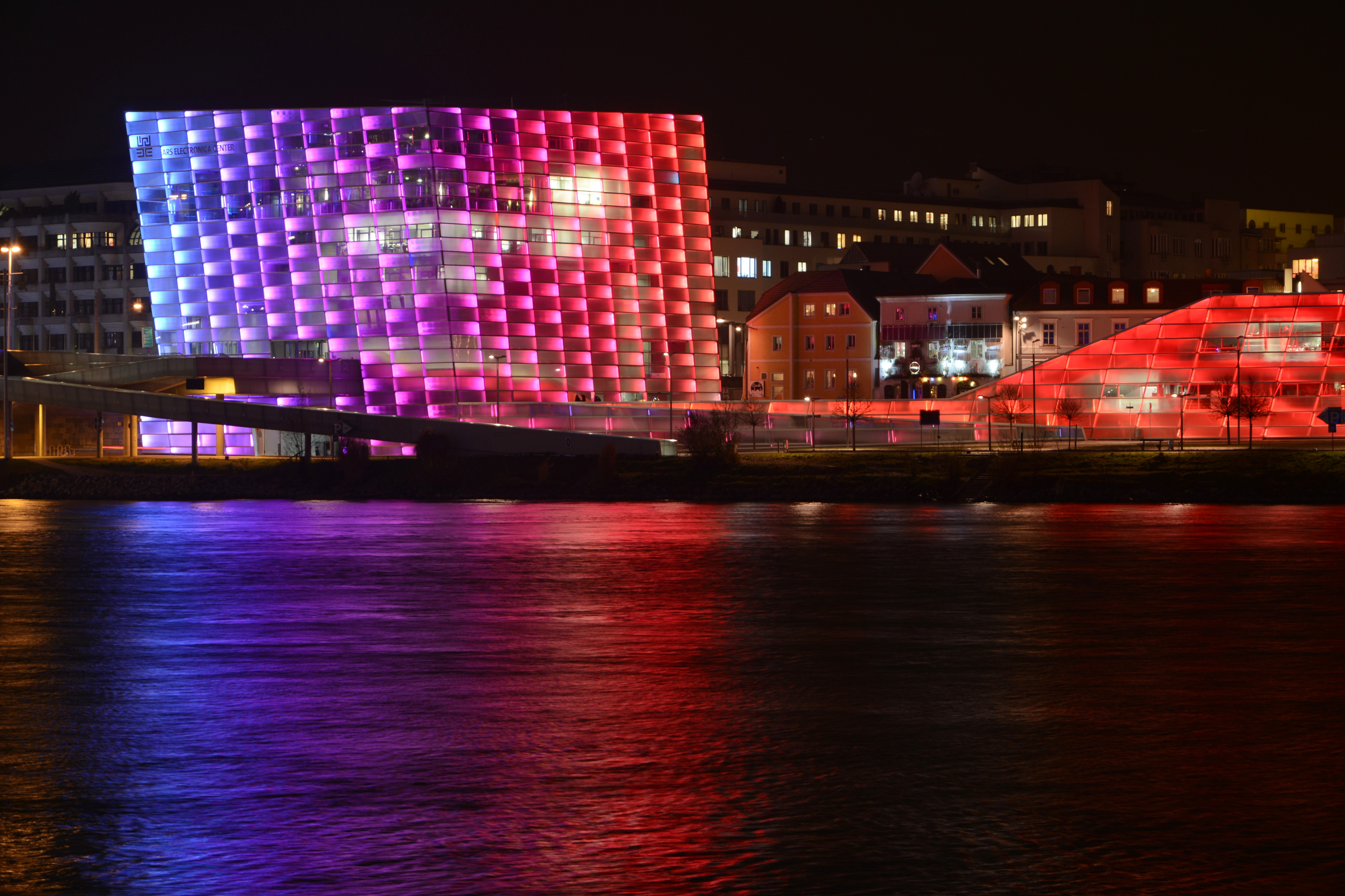 The ARS Electronica Center seen from the Ernst-Koref-Promenade in Linz (Upper Austria).